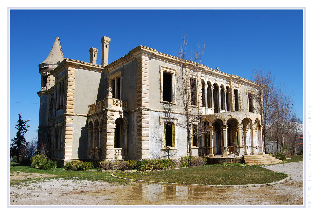 One of the Sursocks' Villas